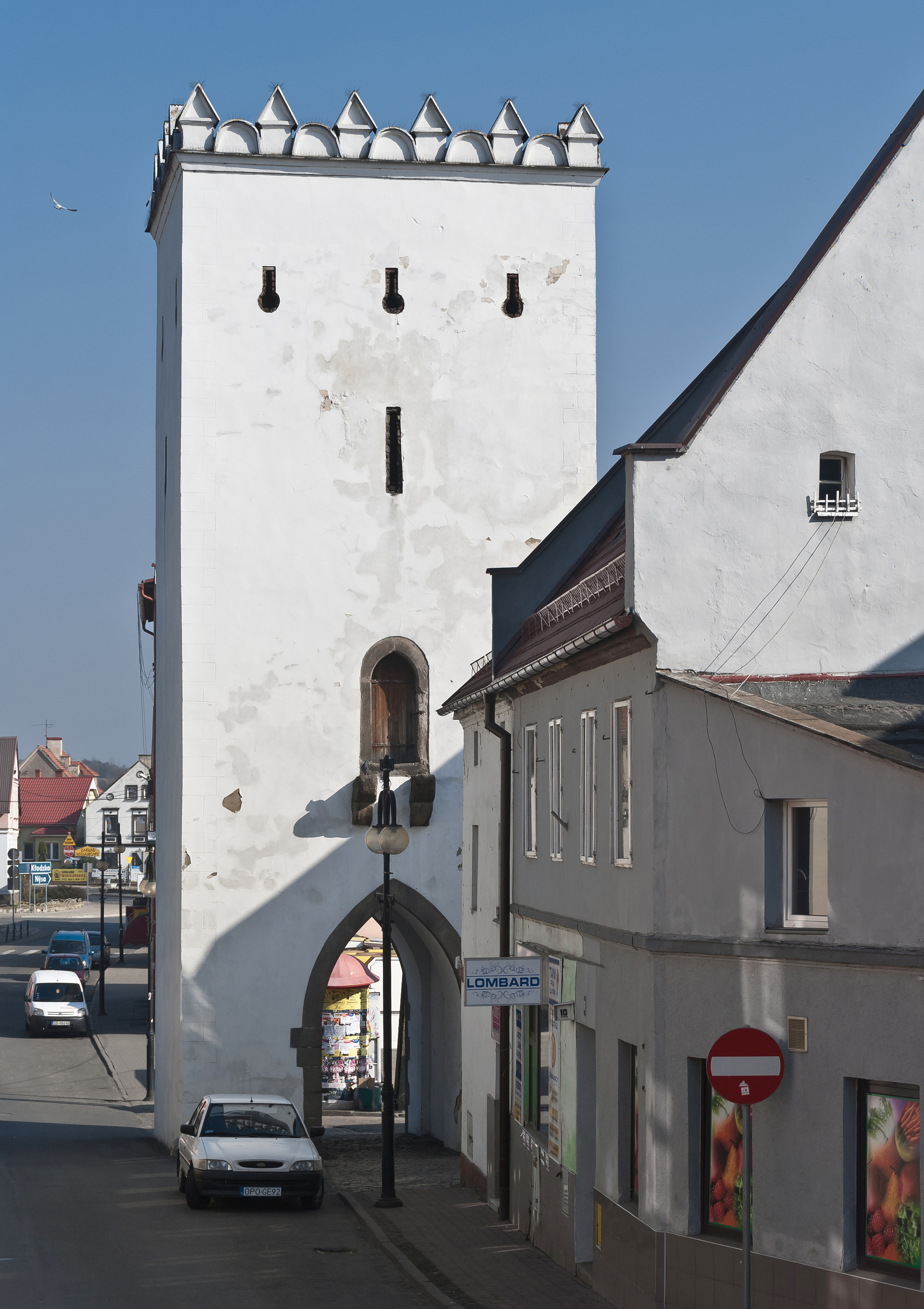 Wróbla Gate in Otmuchów